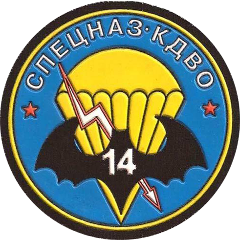 14th Spetsnaz Brigade emblem, Russia